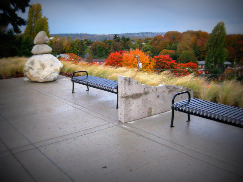 The viewpoint at Jefferson Park located in the Beacon Hill neighborhood of Seattle Washington